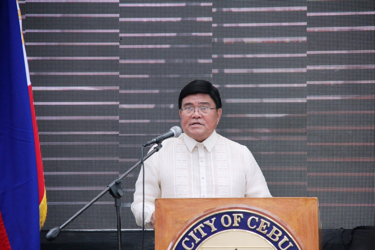 Mayor Edgardo C. Labella delivering his inaugural speech.